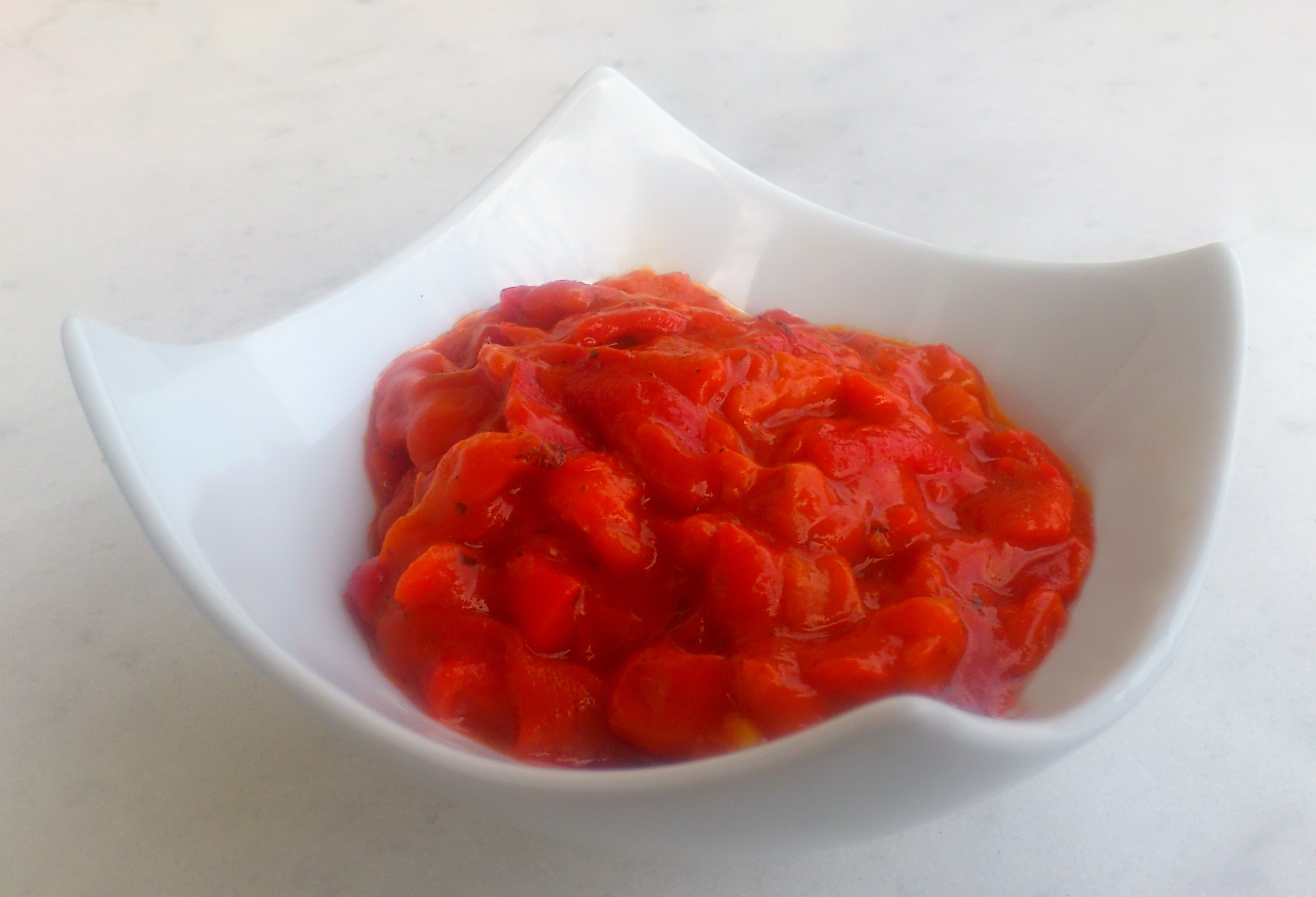 Lyutenitsa